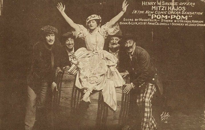 Mitzi Hajos in the operetta Pom-pom, Broadway - publicity still (cropped)